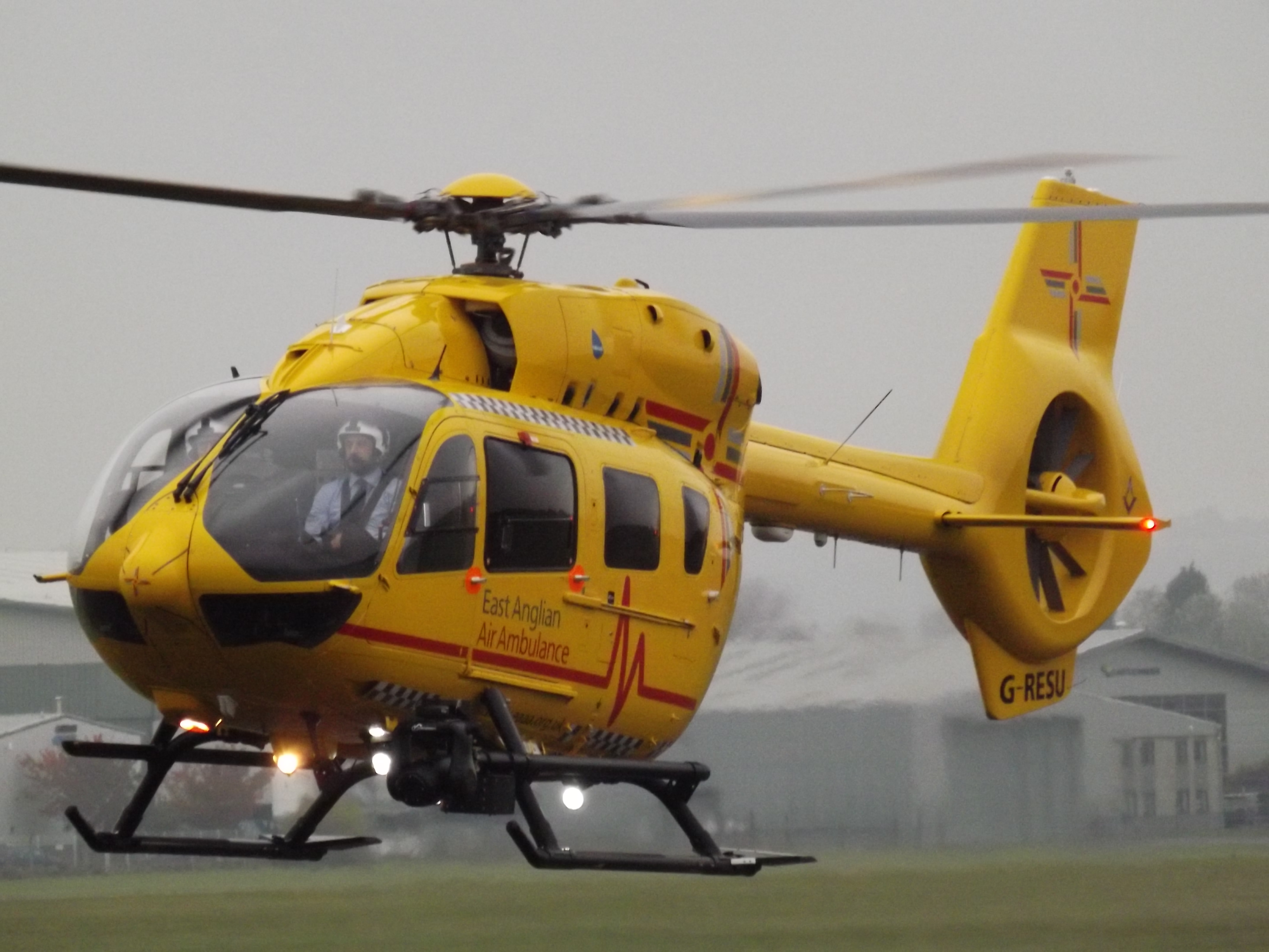 At Gloucestershire Airport.